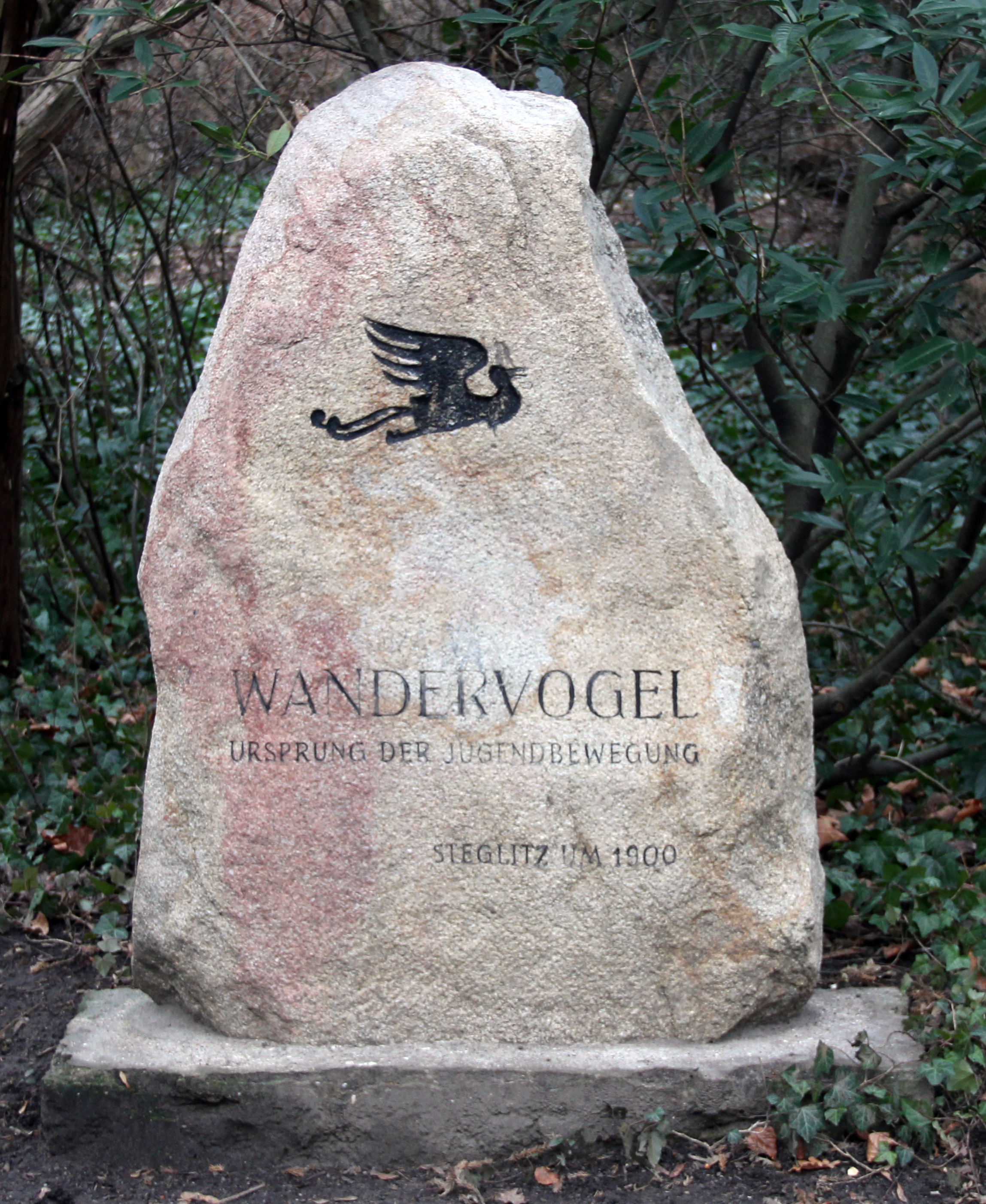 Memorial stone, Wandervogel, Stadtpark Steglitz, Berlin-Steglitz, Germany